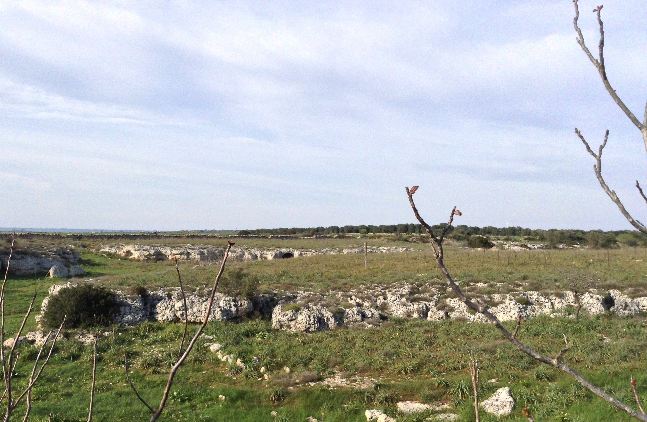 Caves